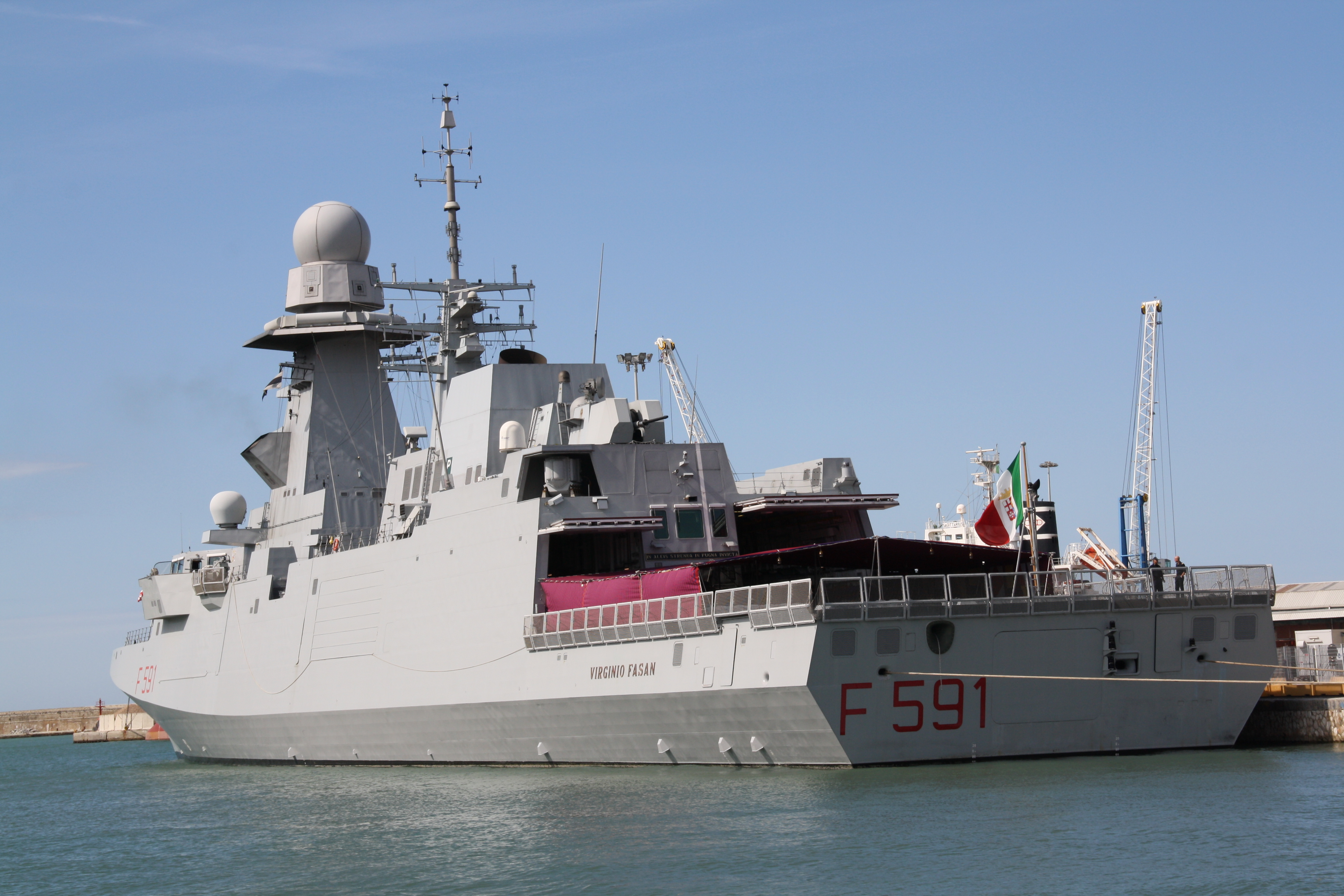 Italy Navy: Marina Militare Pennant number: F 591 Type: Frigate Class: Bergamini Keel laid: December 17, 2009 Launch date: March 31, 2012 Delivered date: December 19, 2013 Builder: Cantiere navale di Riva Trigoso Displacement: 6,700 t Length overall: 144 m Beam: 19.40 m Draft: 8.40 m Main engine: CODLAG system: 1 x Avio-GE LM2500 G4 plus gas turbine, 2 x Jeumont-Schneider electric engines 2,1 MW Electric power: 4 x Isotta Fraschini Motori V1716T2NE 2,190 kw Power: 32,000 kw Speed: 27 knots Range: 6,000 nm Crew: 167